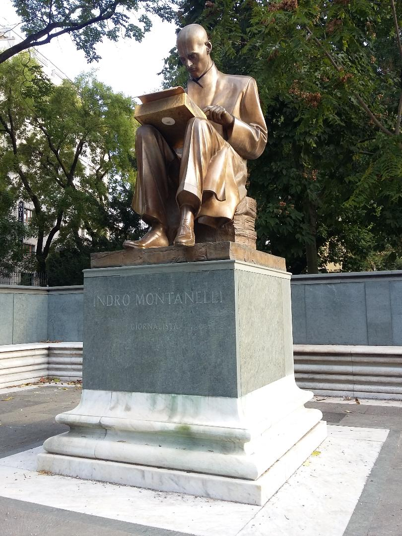 This is a photo of a monument which is part of cultural heritage of Italy.